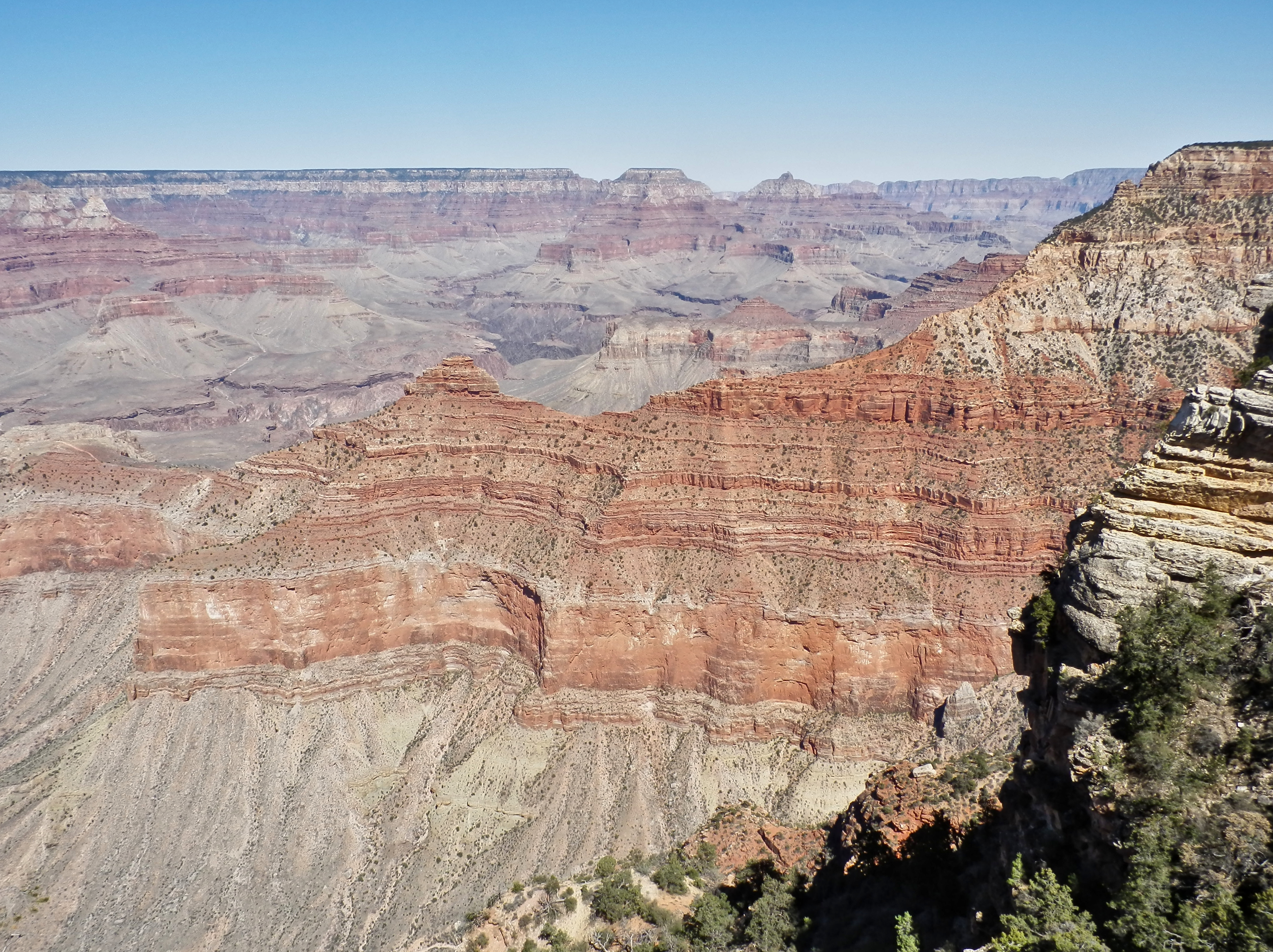 Grand Canyon South Rim Trail